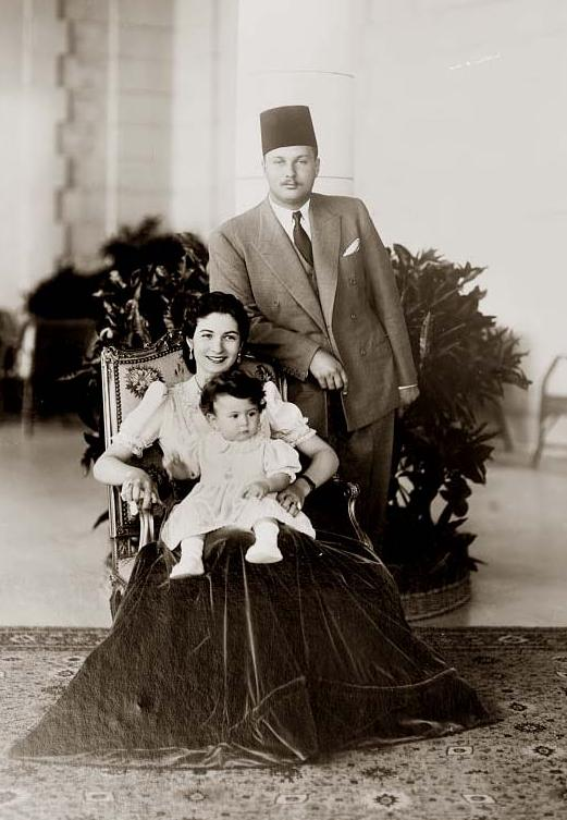 King Farouk I of Egypt with his wife Queen Farida and their daughter Princess Ferial.